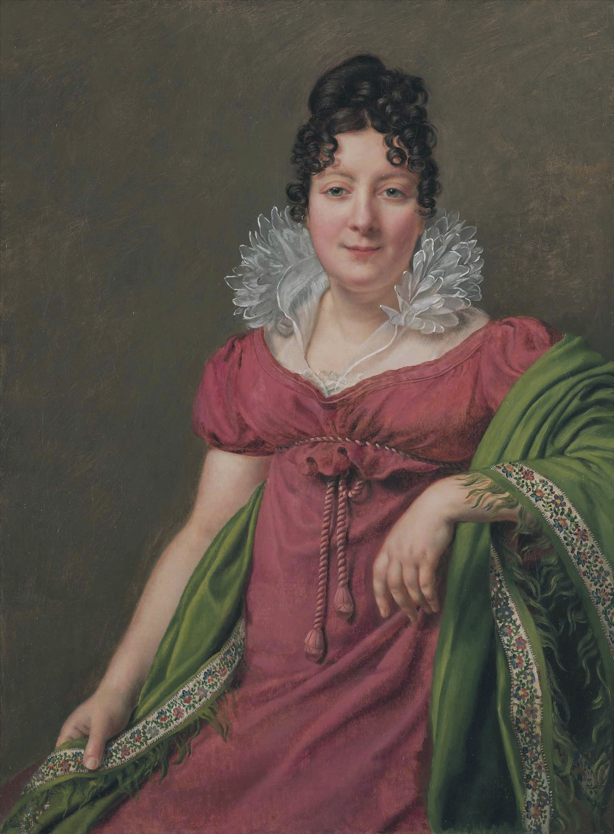 Marie Thérèse Étiennette Bourgoin, sociétaire de la Comédie Française oil on canvas 95.5 x 71 cm